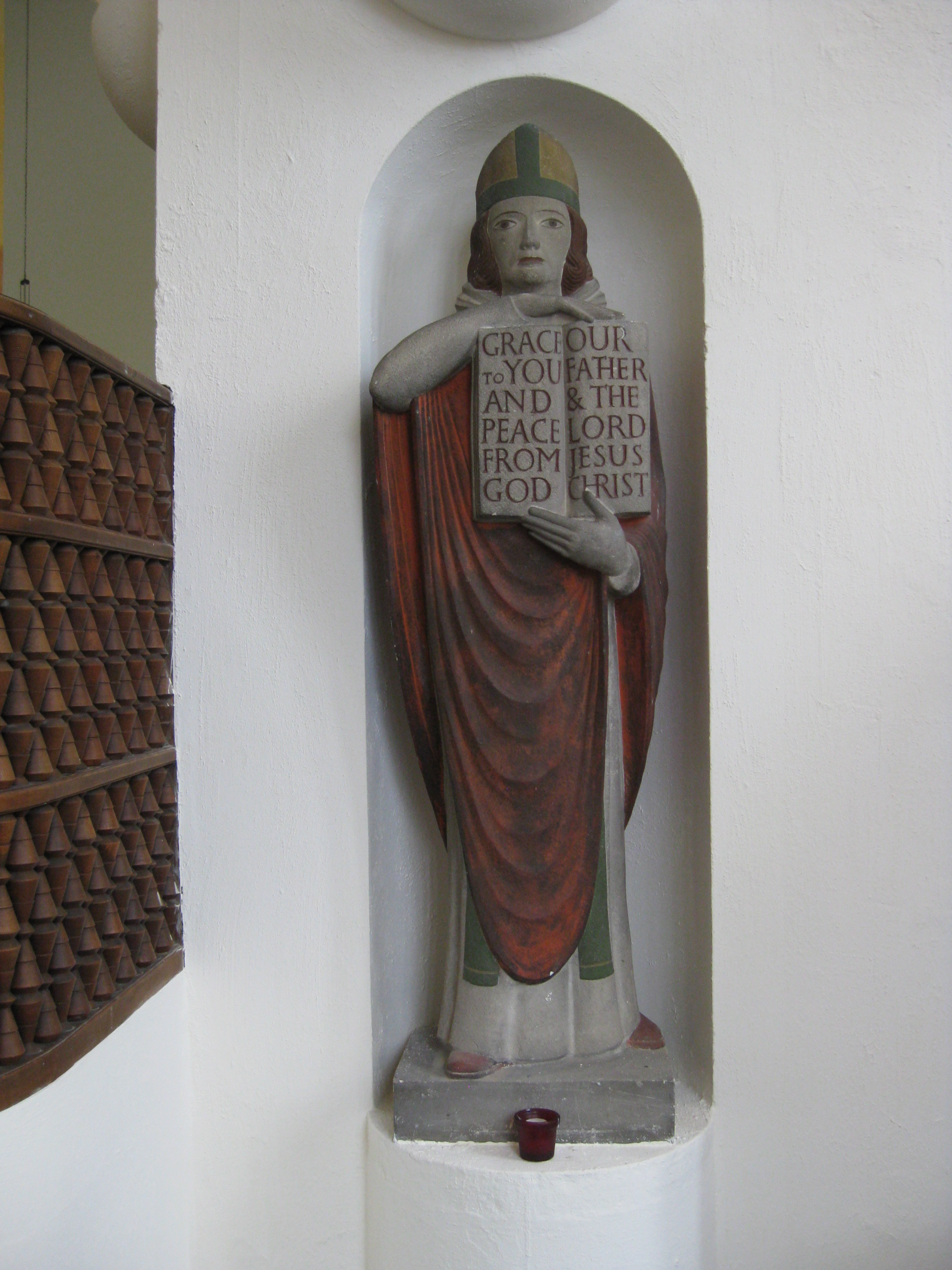 St Wilfrid's Church, Halton, Leeds. Sculpture of St Wilfrid by Eric Gill (about 1939)